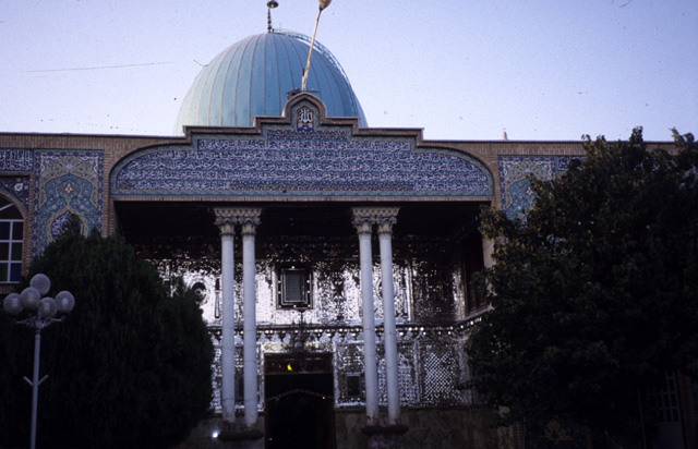 I am the photographer. Scanned from my slides. Category:Jewish images